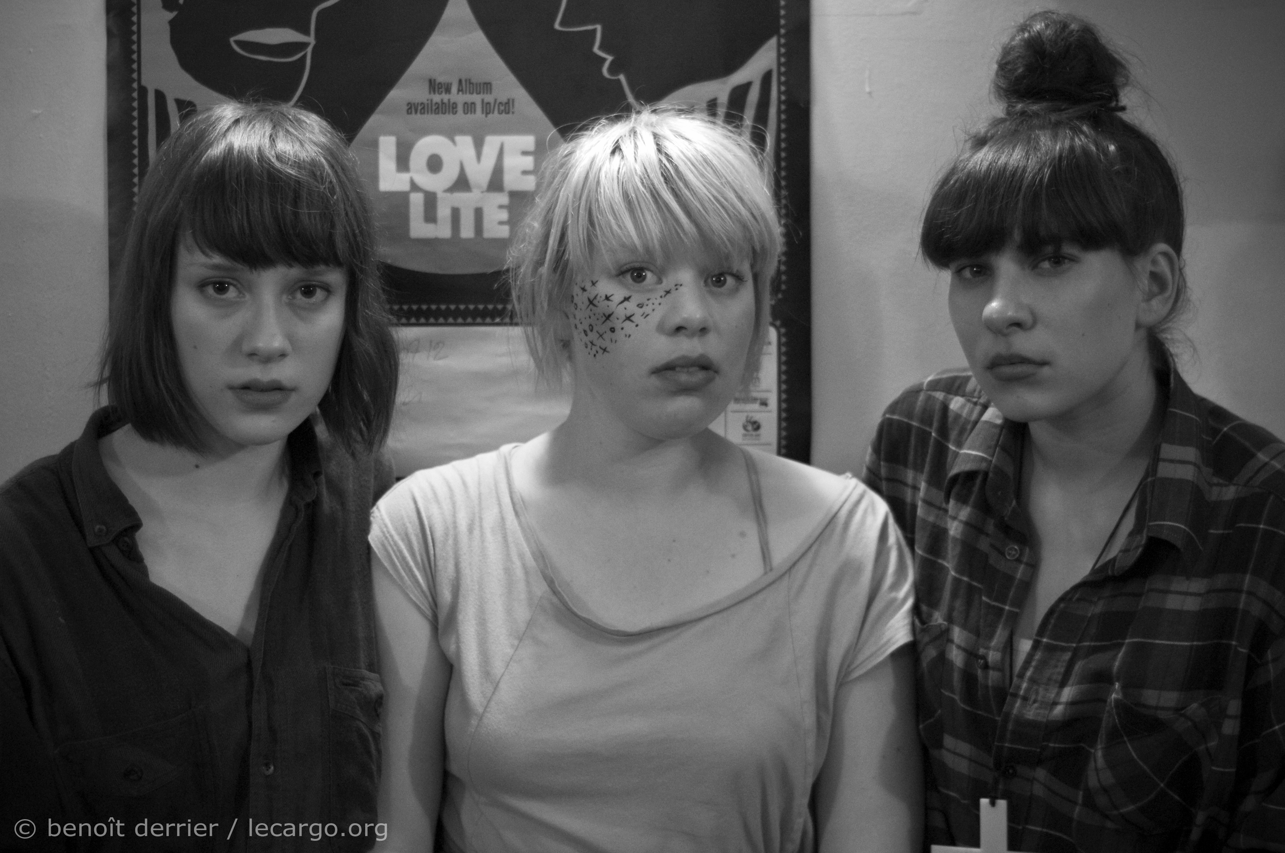 Le Corps Mince de Françoise in concert during the festival Les femmes s'en mêlent, Le Trabendo (Paris, France).